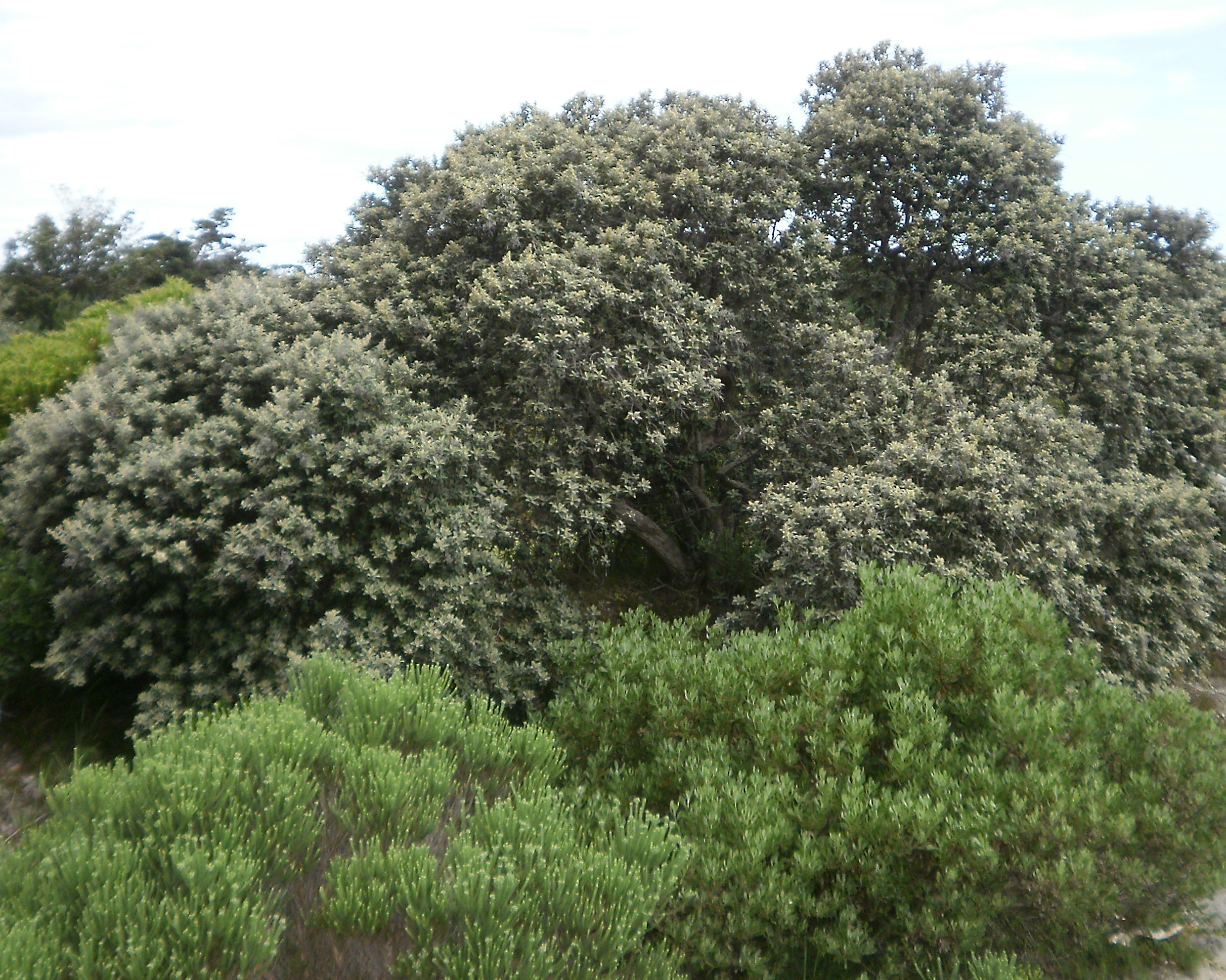 Grey camphor tree growing in beach strandveld vegetaion. South Africa.